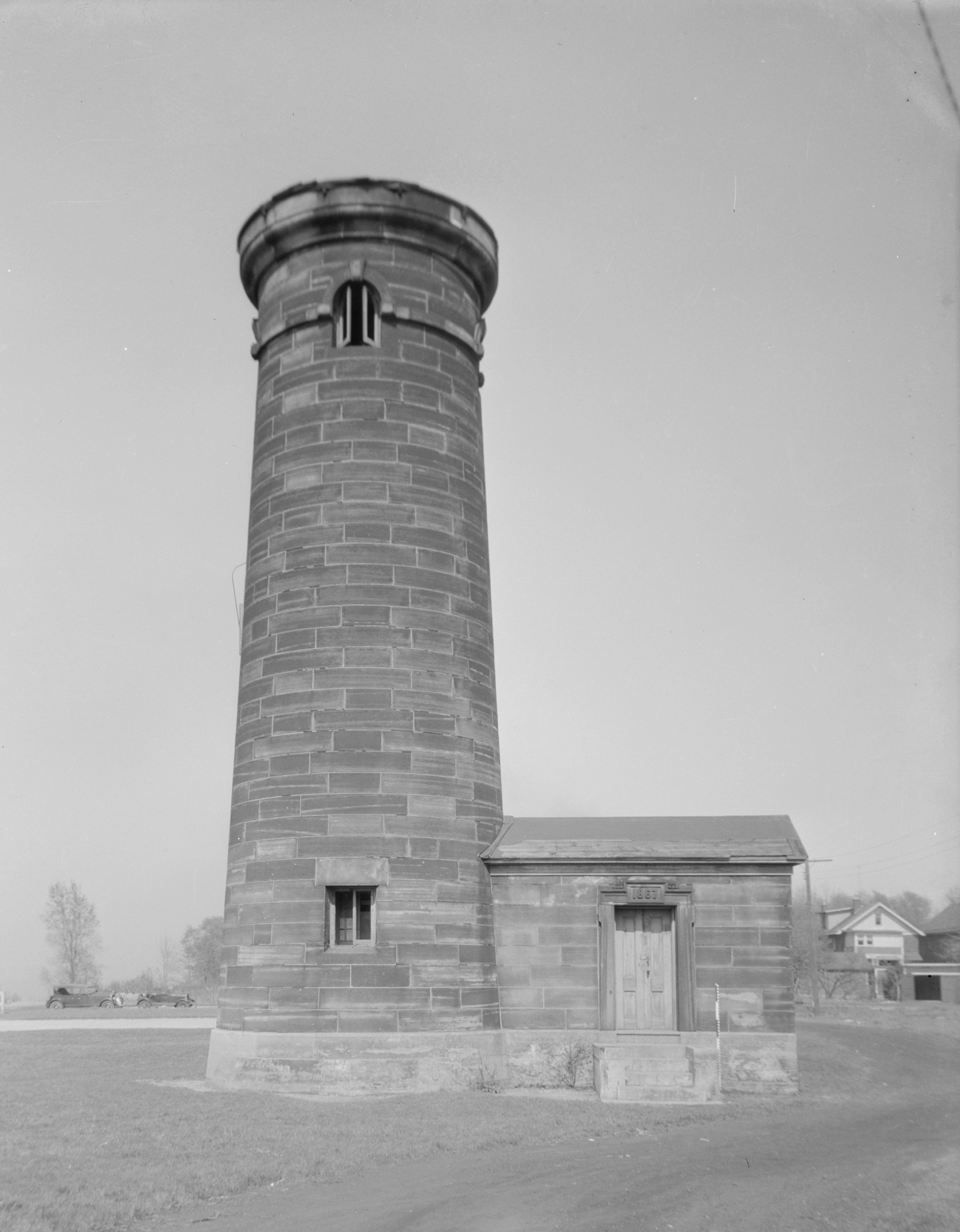 Erie Land Light in Erie, Pennsylvania Original number was "HABS PA,25-ERI,5-1", original caption was "West elevation."